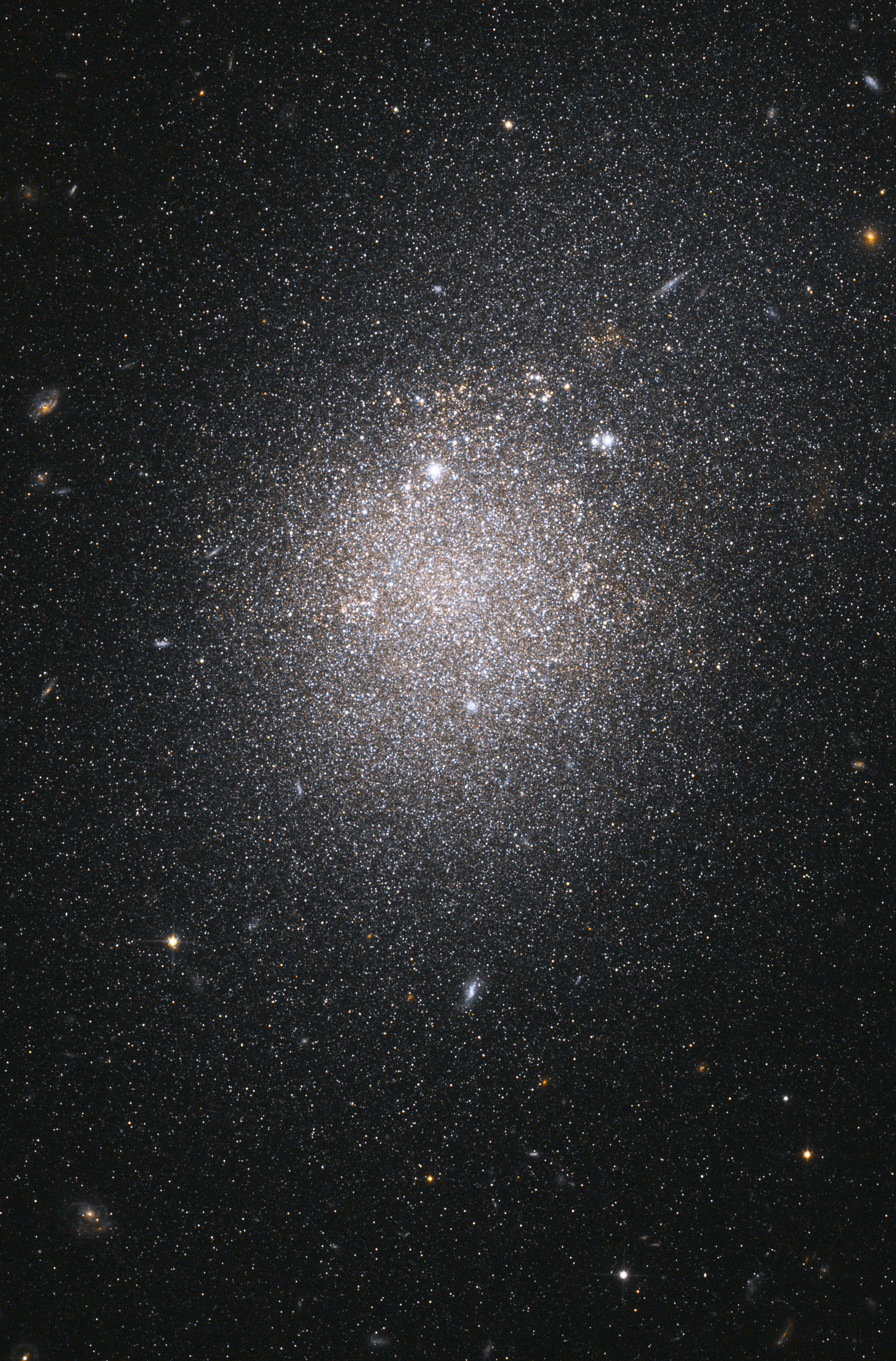 The images were created from Hubble data from proposal 9771: I. Karachentsev (Russian Academy of Sciences, Special Astrophysical Observatory), B. Tully (University of Hawaii), V. Karachentseva (Kyiv University), A. Dolphin (Raytheon Company), S. Sakai (University of California, Los Angeles), E. Shaya (University of Maryland), and M. Sharina, L. Makarova, and D. Makarov (Russian Academy of Sciences, Special Astrophysical Observatory). The science team comprises K. McQuinn and E. Skillman (University of Minnesota, Minneapolis), J. Cannon (Macalester College, MN), J. Dalcanton (University of Washington, Seattle), A. Dolphin (Raytheon Company), and D. Stark and D. Weisz (University of Minnesota, Minneapolis).